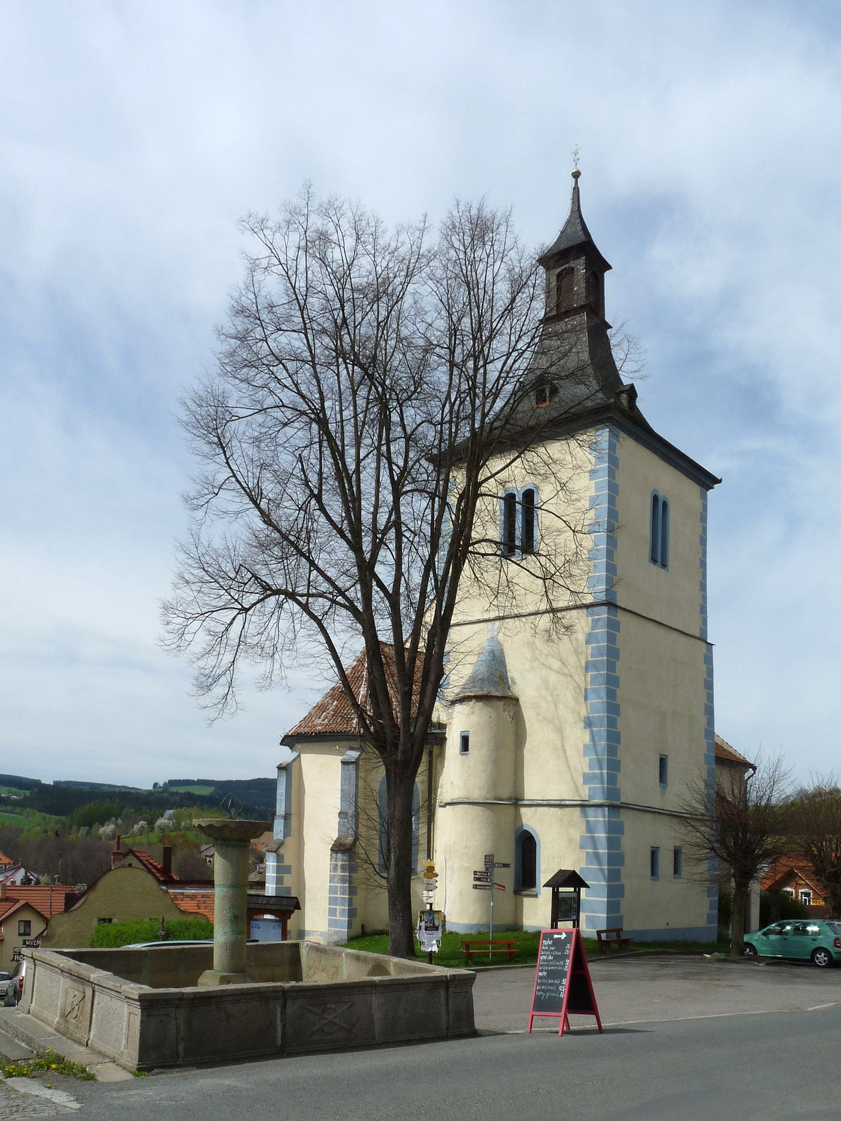 Church of the Nativity of the Virgin Mary in the village of Velhartice, Klatovy District, Czech Republic